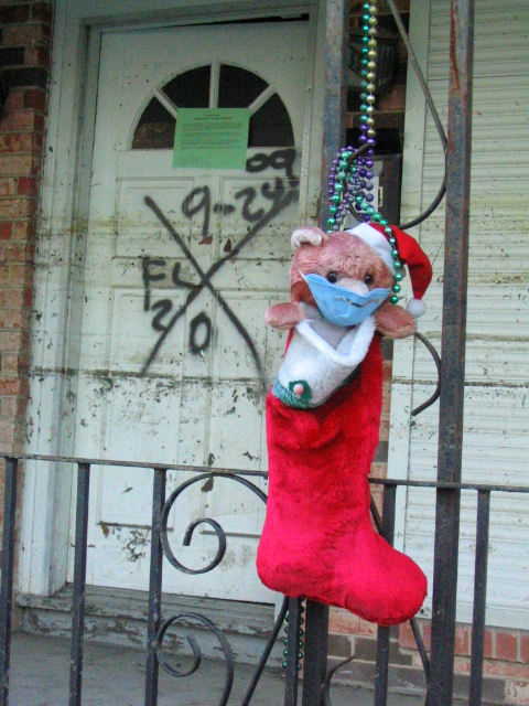 Christmas decoration on porch of house flooded in the Hurricane Katrina levee failue disaster, Lakeview section of New Orleans. Note that the teddy bear is wearing a dust/mold mask; lines from levels of long standing floodwater seen on door and wall in background; search & rescue team "X" marking on door.